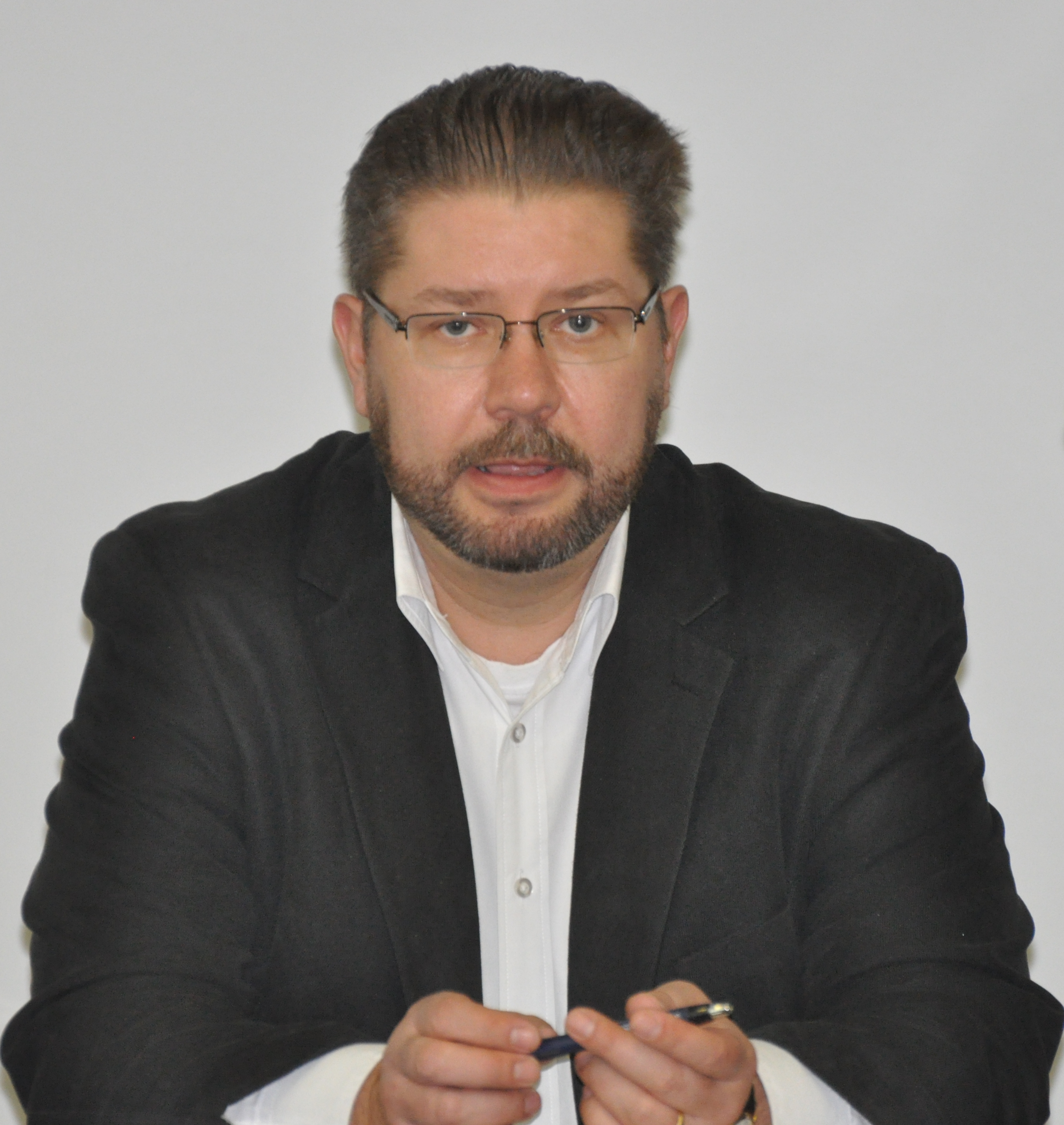 Finnish political scientist Heikki Patomäki at Turku Main Library, 2011.